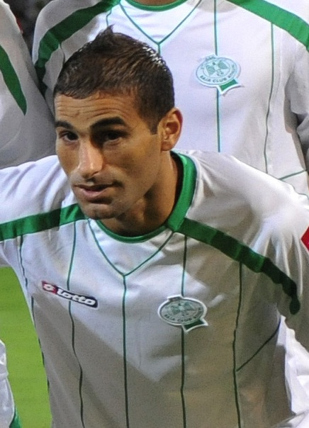 Zakaria Zerouali 2011-08-26